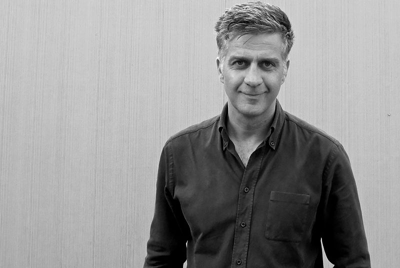 Film Director Romuald Karmakar in September 2012.